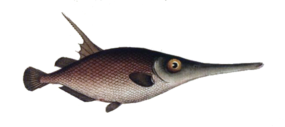 Macroramphosus scolopax